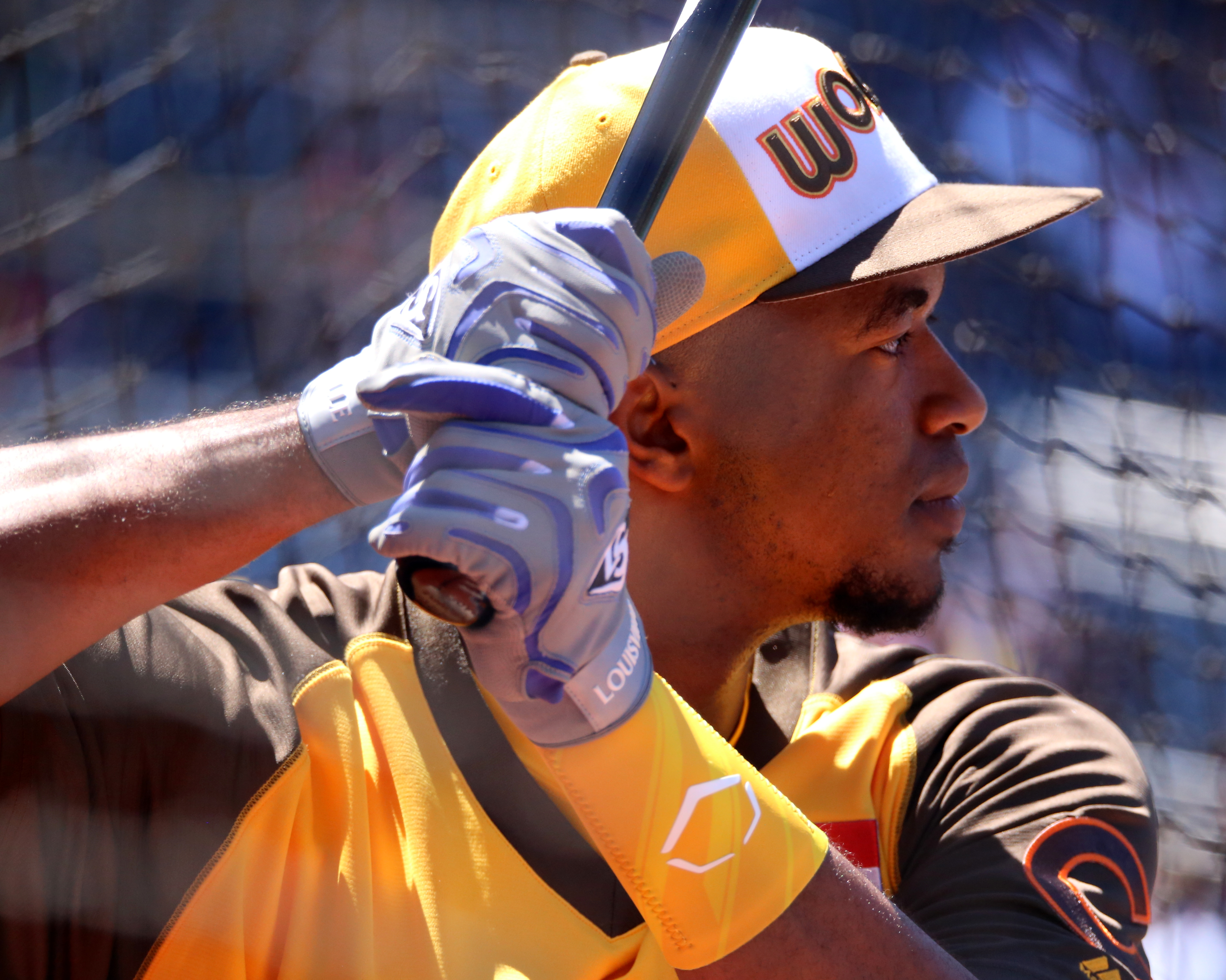 Cubs prospect Eloy Jimenez takes BP before the SiriusXM All-Star Futures Game.